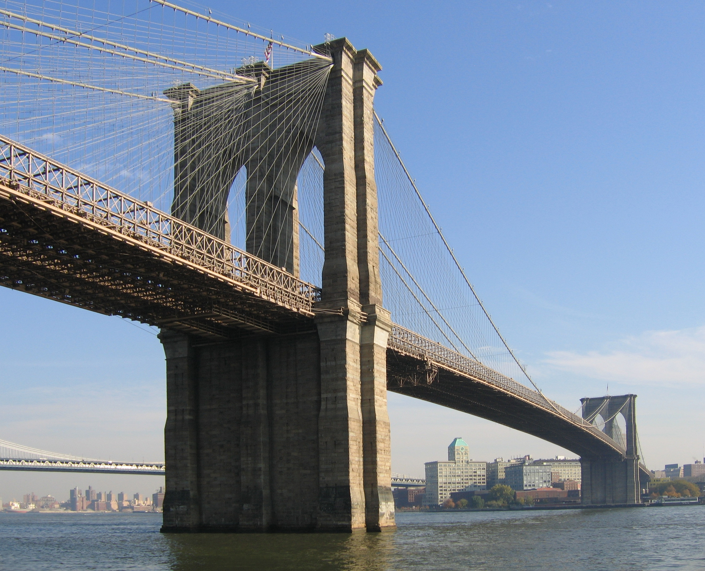 The Brooklyn Bridge, seen from Manhattan, New York City.